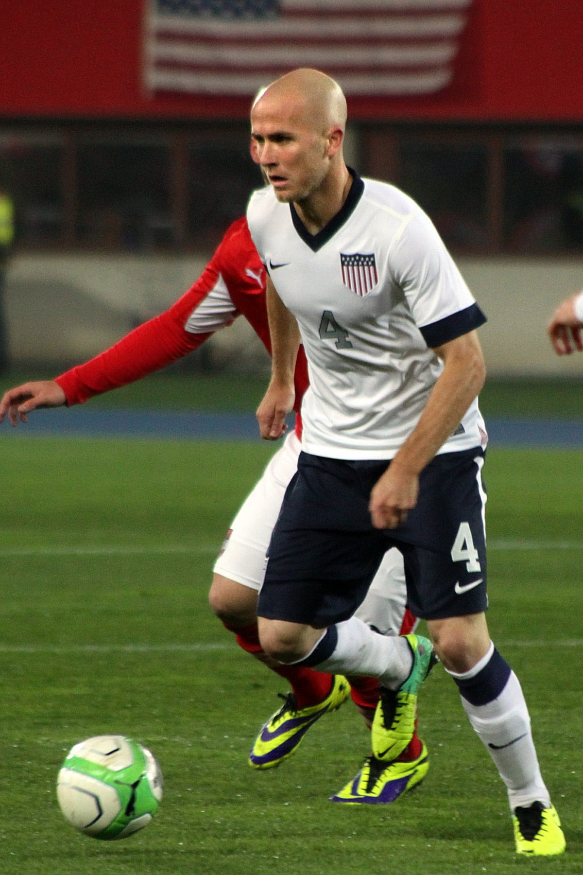 Friendly-match Austria vs. USA (1:0) in the Ernst-Happel-Stadion in Vienna at 2013-03-22. – The photo shows Michael Bradley (USA).